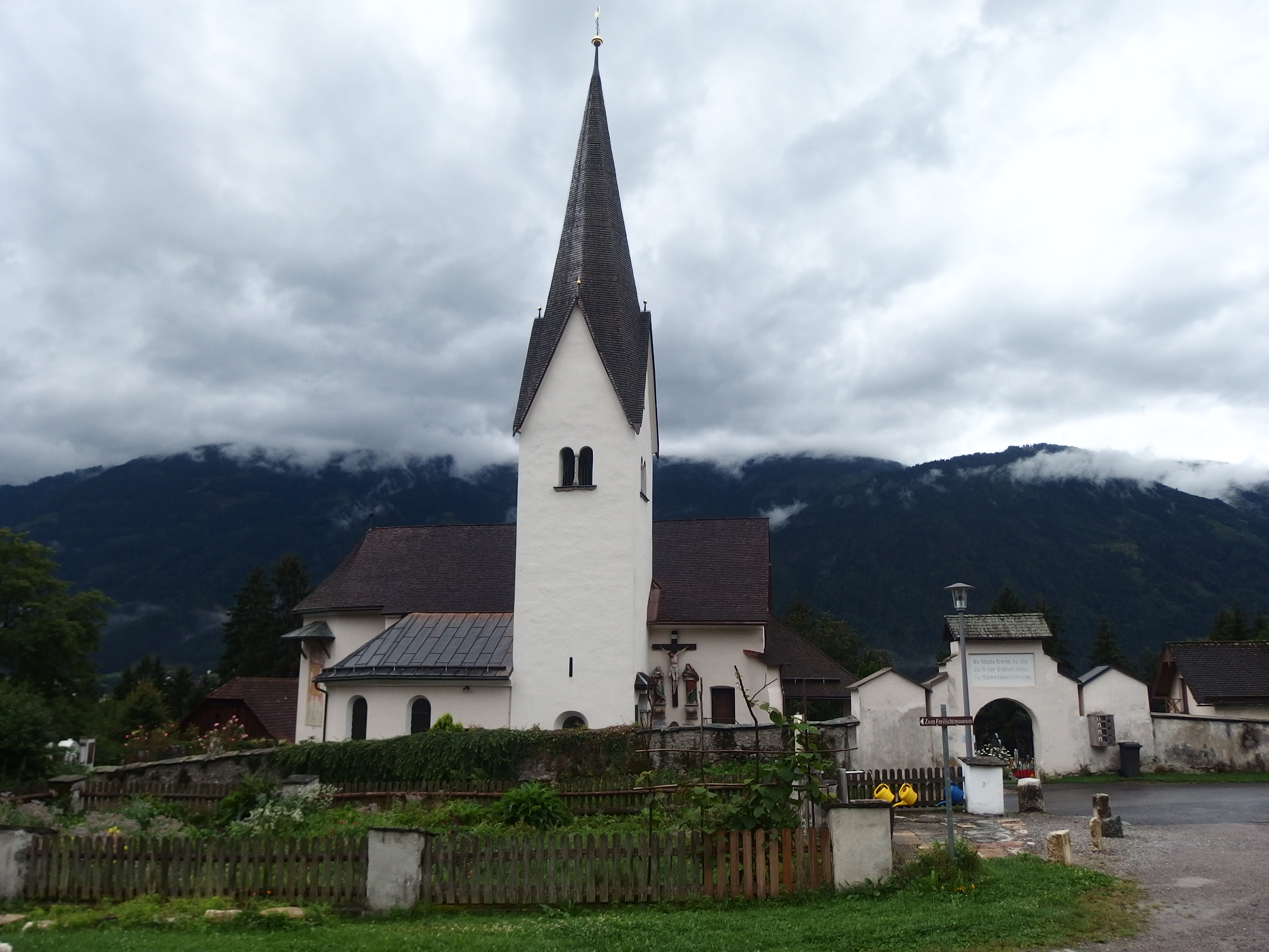 Lendorf im Drautal, Carinthia, Austria.